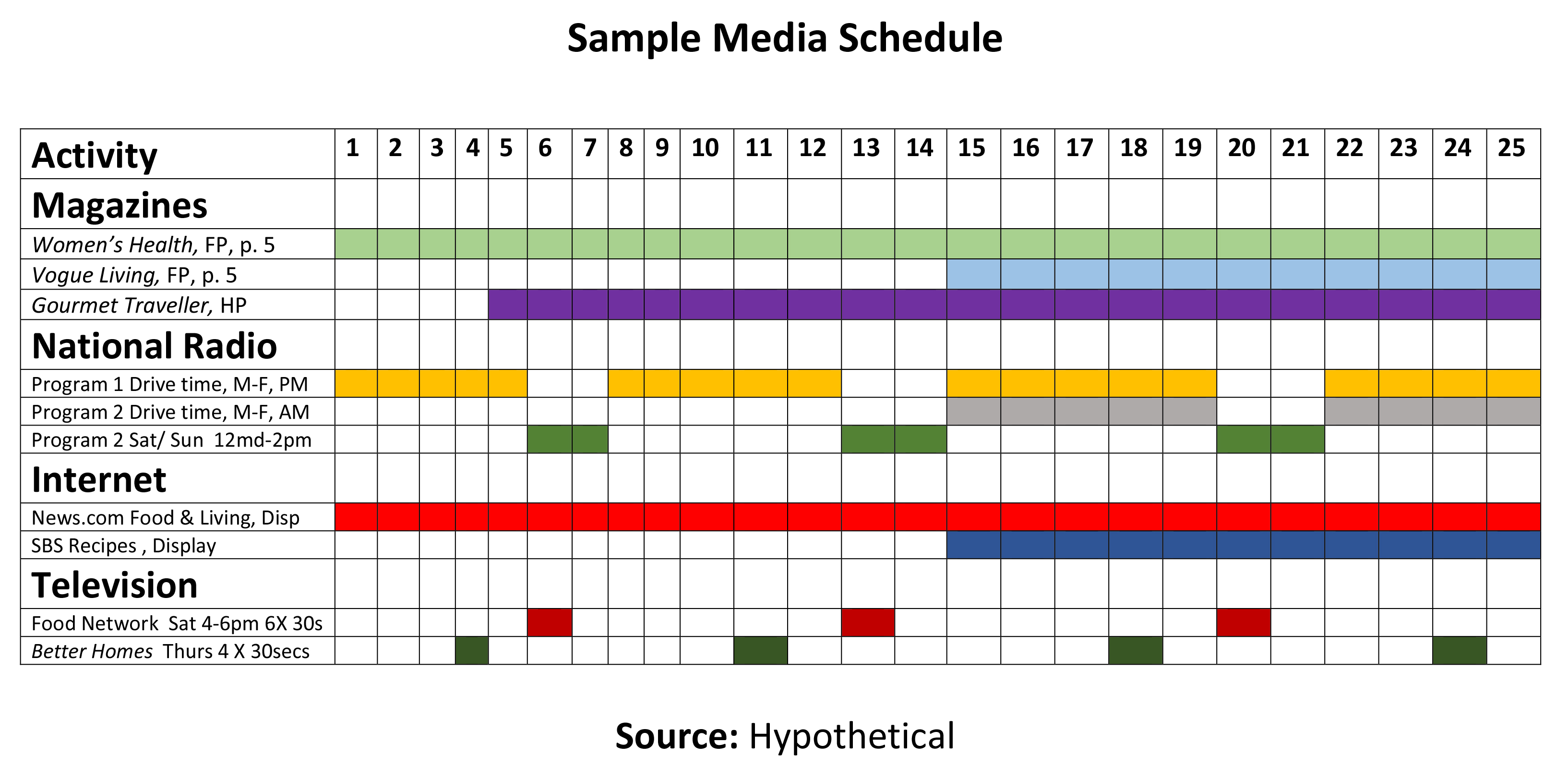 sample media schedule